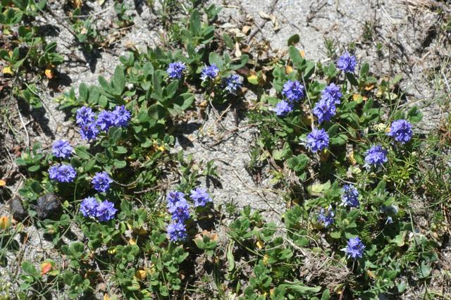 Veronica alpina